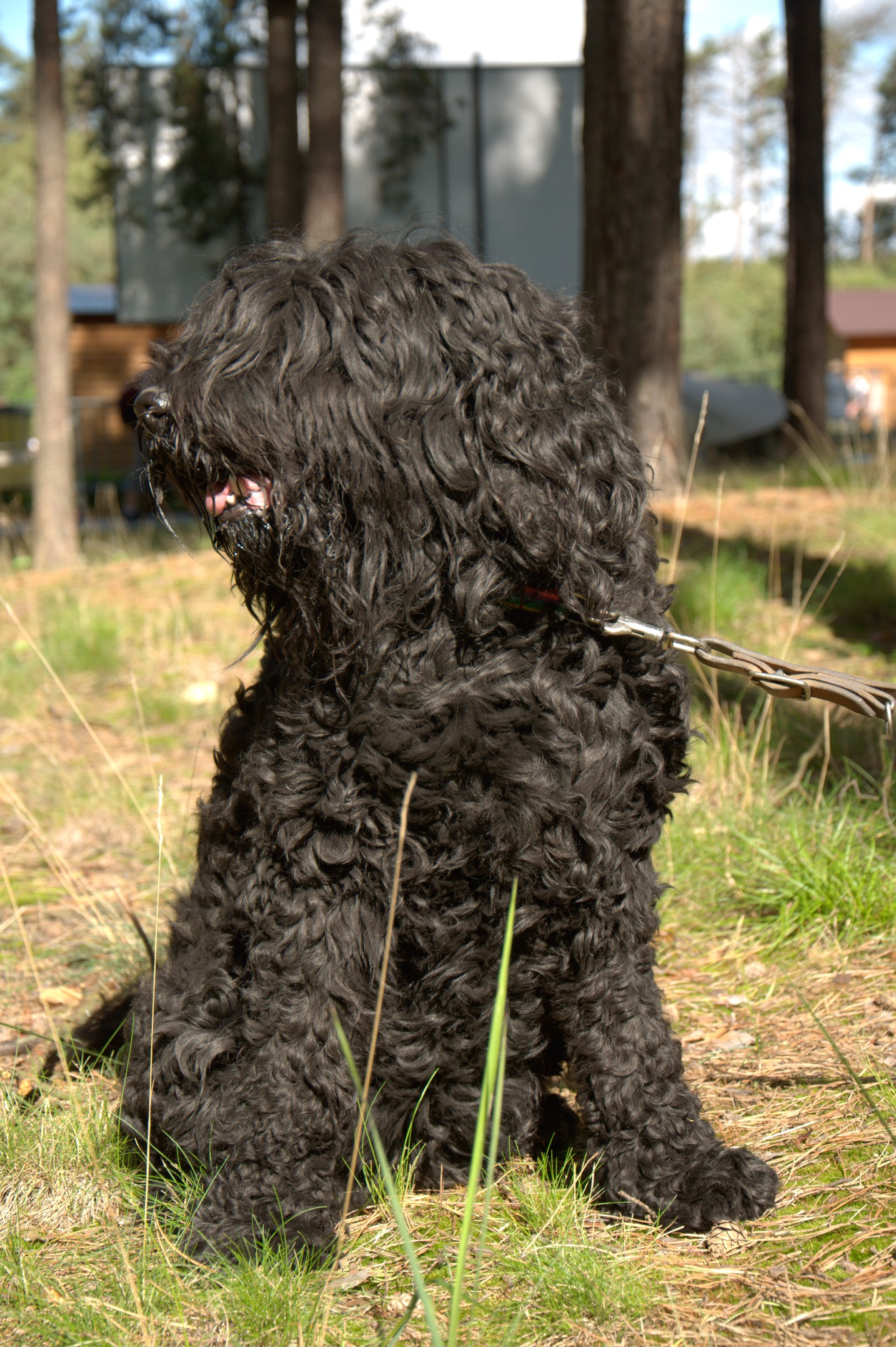 The oldest living Barbet in Poland - Ottavia